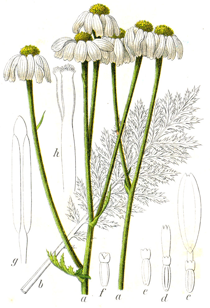 Tanacetum corymbosum (L.) Sch.Bip., syn. Chrysanthemum corymbosum L., Chamaemelum corymbosum (L.) E.H.L.Krause Original Caption Wald-Kamille, Chamaemelum corymbosum